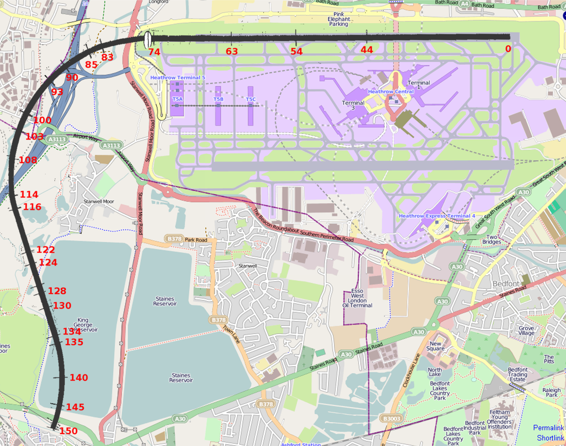 Path of final flight of BEA flight 548, operated by aircraft G-ARPI in 1972. The red numbers are times in seconds after brake release. Note that the background map is of Heathrow and its surroundings as they were in 2010, rather than at the time of the flight. This map may be incomplete, and may contain errors. Don't rely solely on it for navigation.